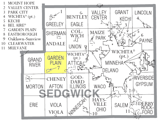 Map of Sedgwick County, Kansas highlighting Garden Plain Township